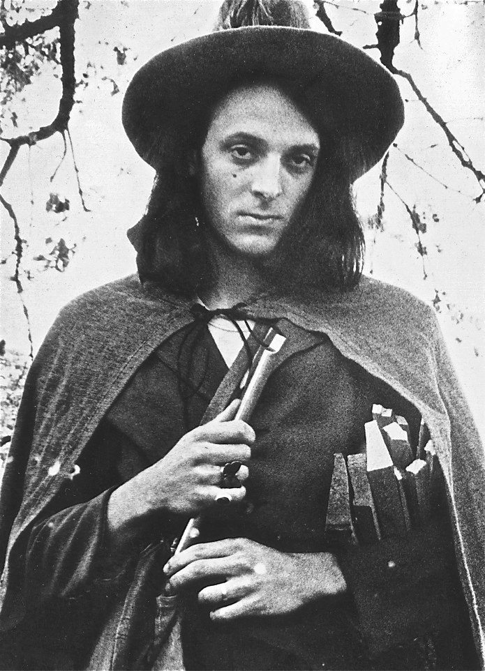 Reto Savoldelli in 1971 as Stella da Falla